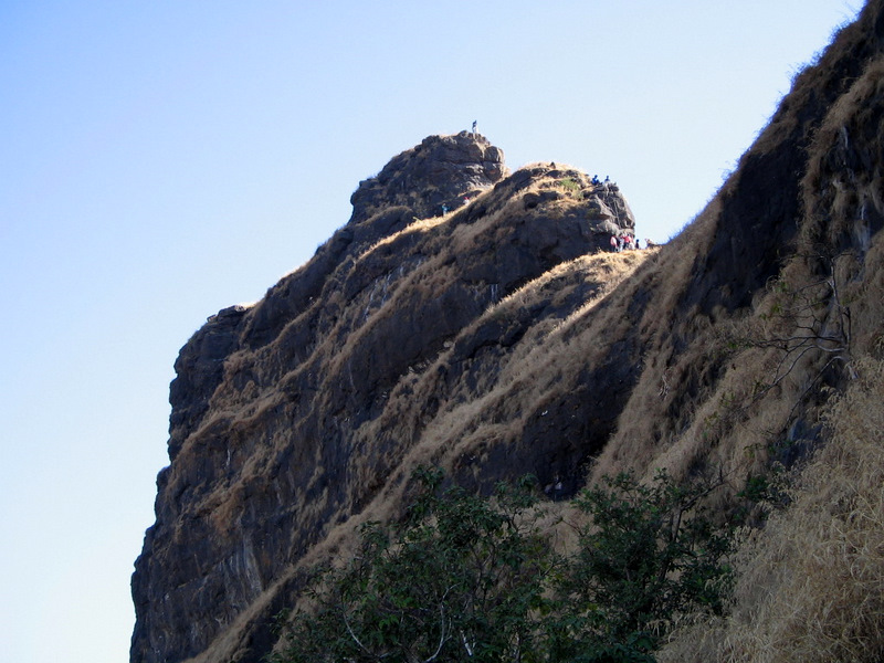 u hav to rock climb two stages....and both are fatte....to say d least